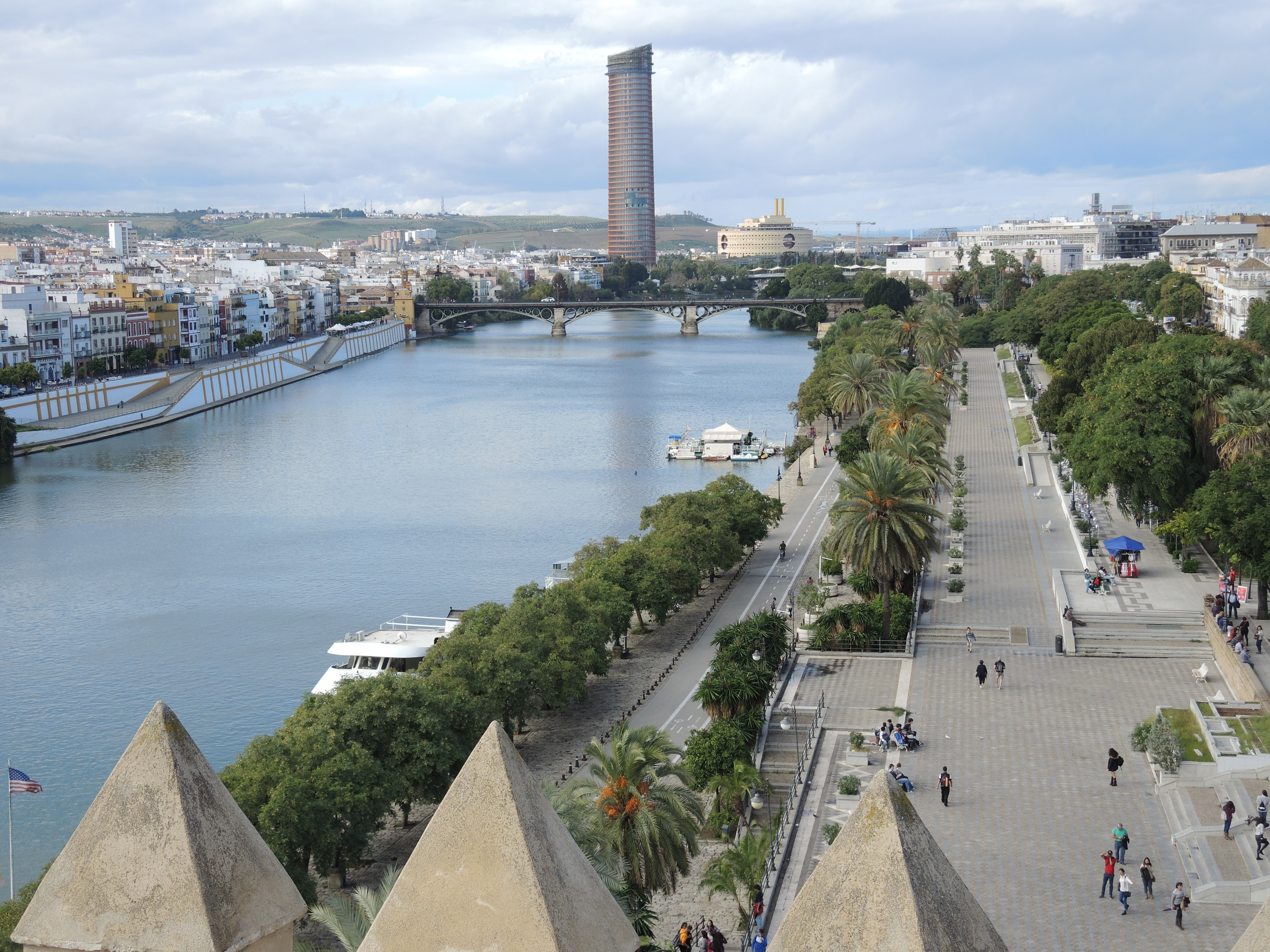 Guadalquivir River Seville Spain